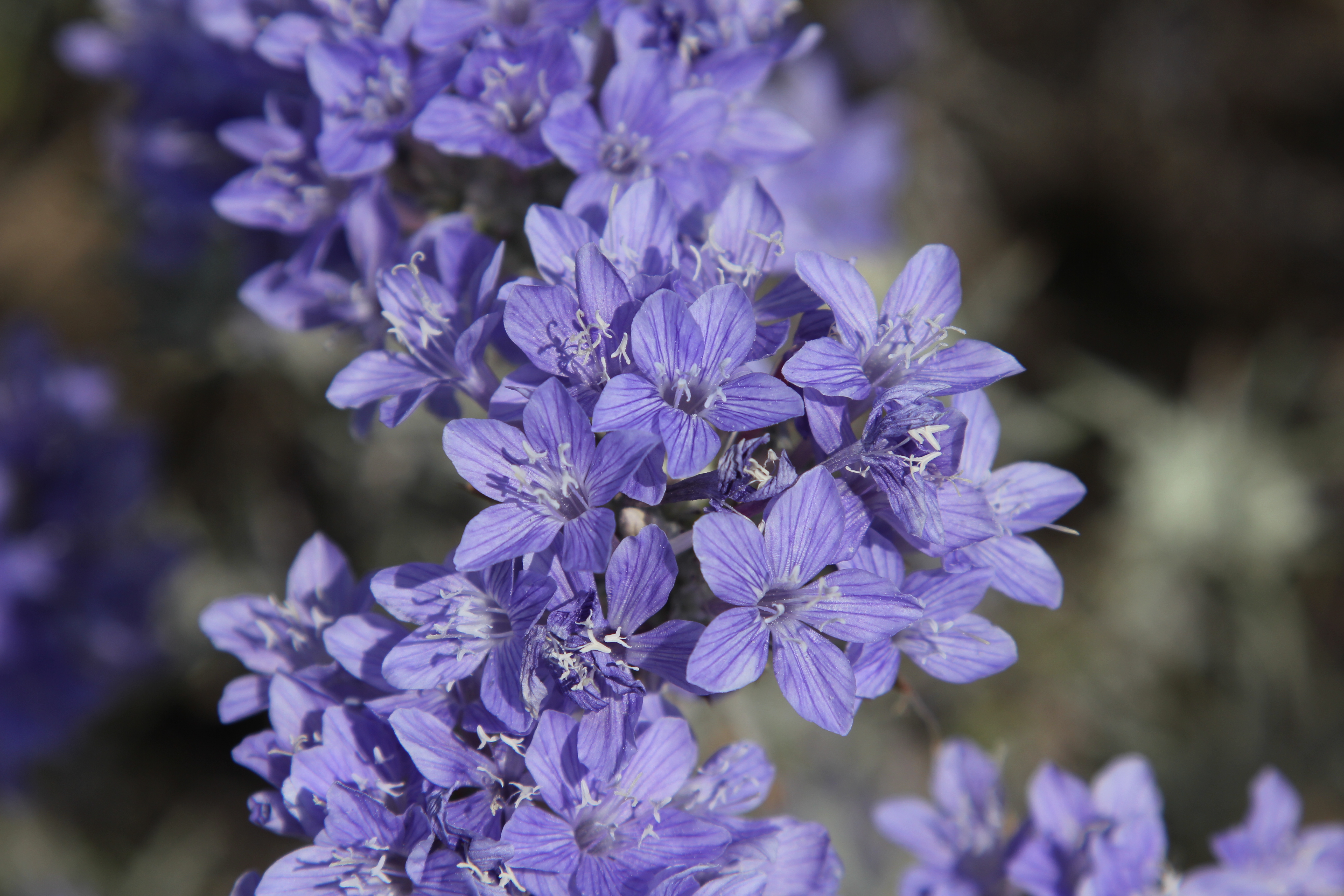 Santa Ana River woolly star (Eriastrum densifolium sanctorum) has gray-green stems and leaves. The bright blue flowers are up to 1.4 inches long and are contained in heads of about 20 blossoms each. This plant was listed as endangered on September 28, 1987. Photo credit: Ken Corey/USFWS